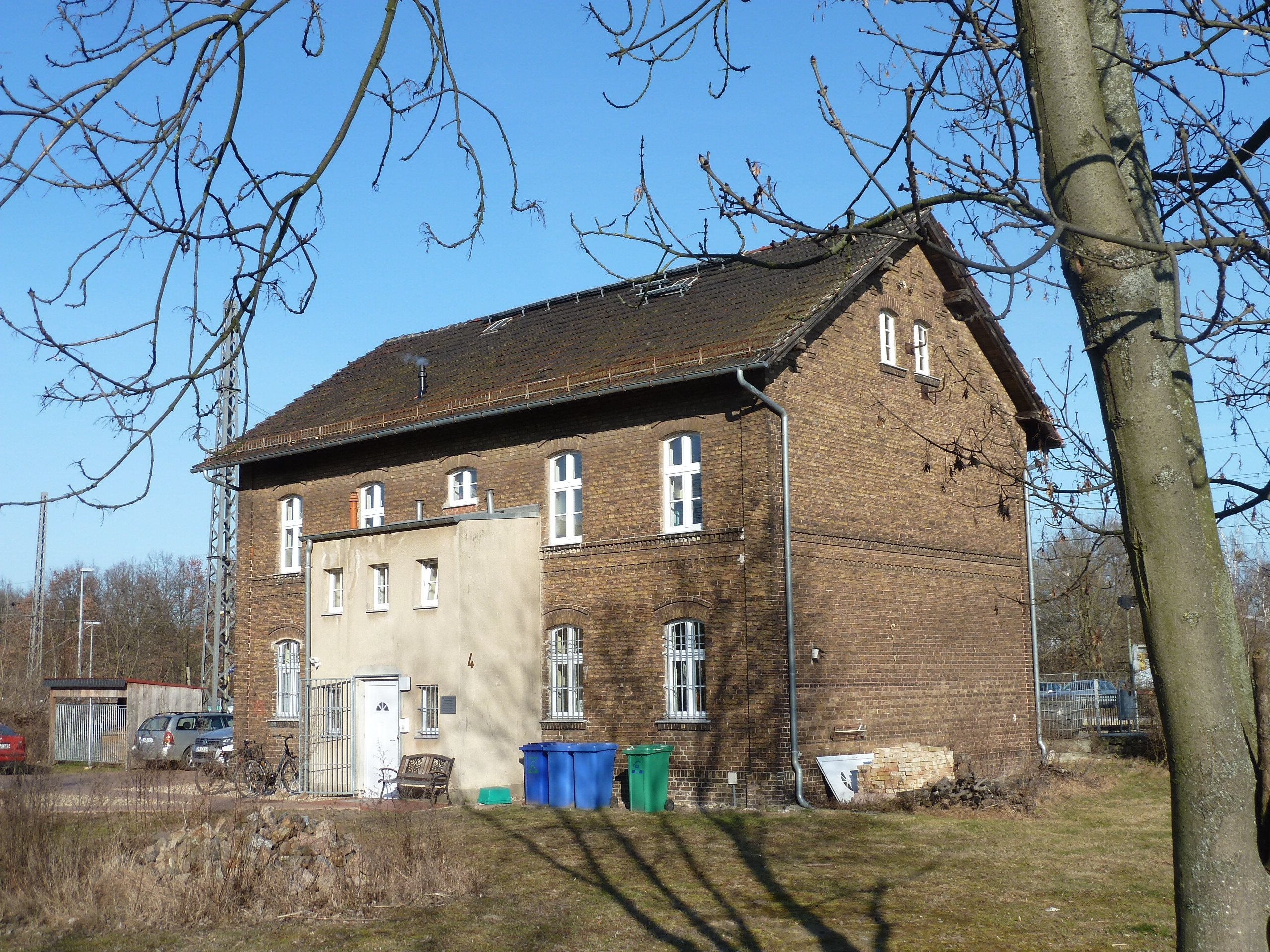 Ludwigsfelde, one of three railway employees' living house near the station which are on cultural heritage list